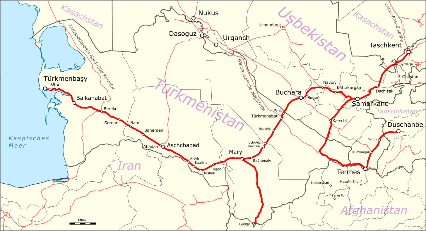 Map of the main road of the Trans-Caspian railway